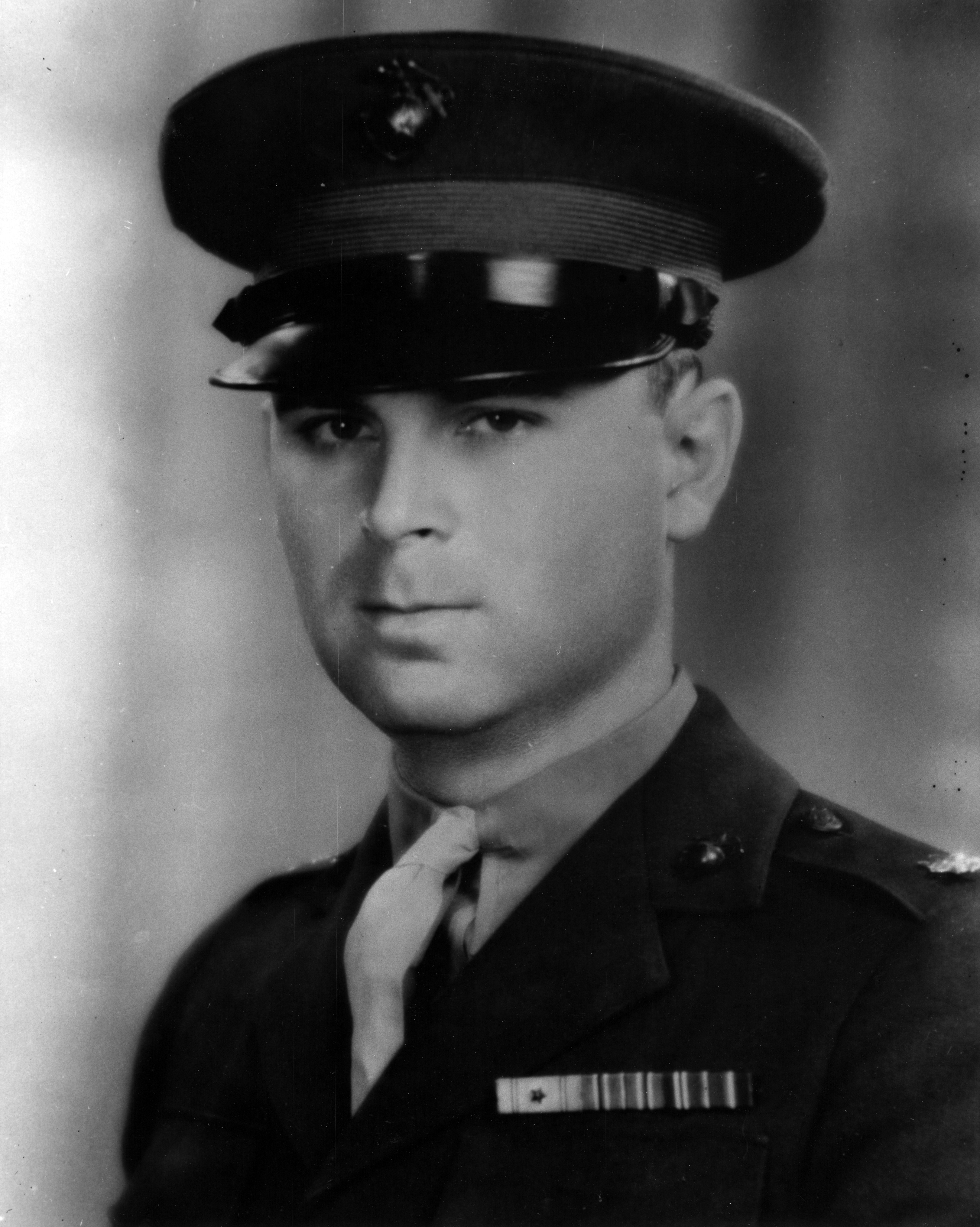 James Donald Hittle (June 10, 1915 - June 15, 2002) was a decorated officer in the United States Marine Corps with the rank of Brigadier General. He is most noted for his service as Legislative Assistant to the Commandant of the Marine Corps, between June 1952 - January 1960. Following his retirement from the Marine Corps, Hittle served as United States Assistant Secretary of the Navy (Manpower and Reserve Affairs) from March 1969 until March 1971. Here shown as Major.